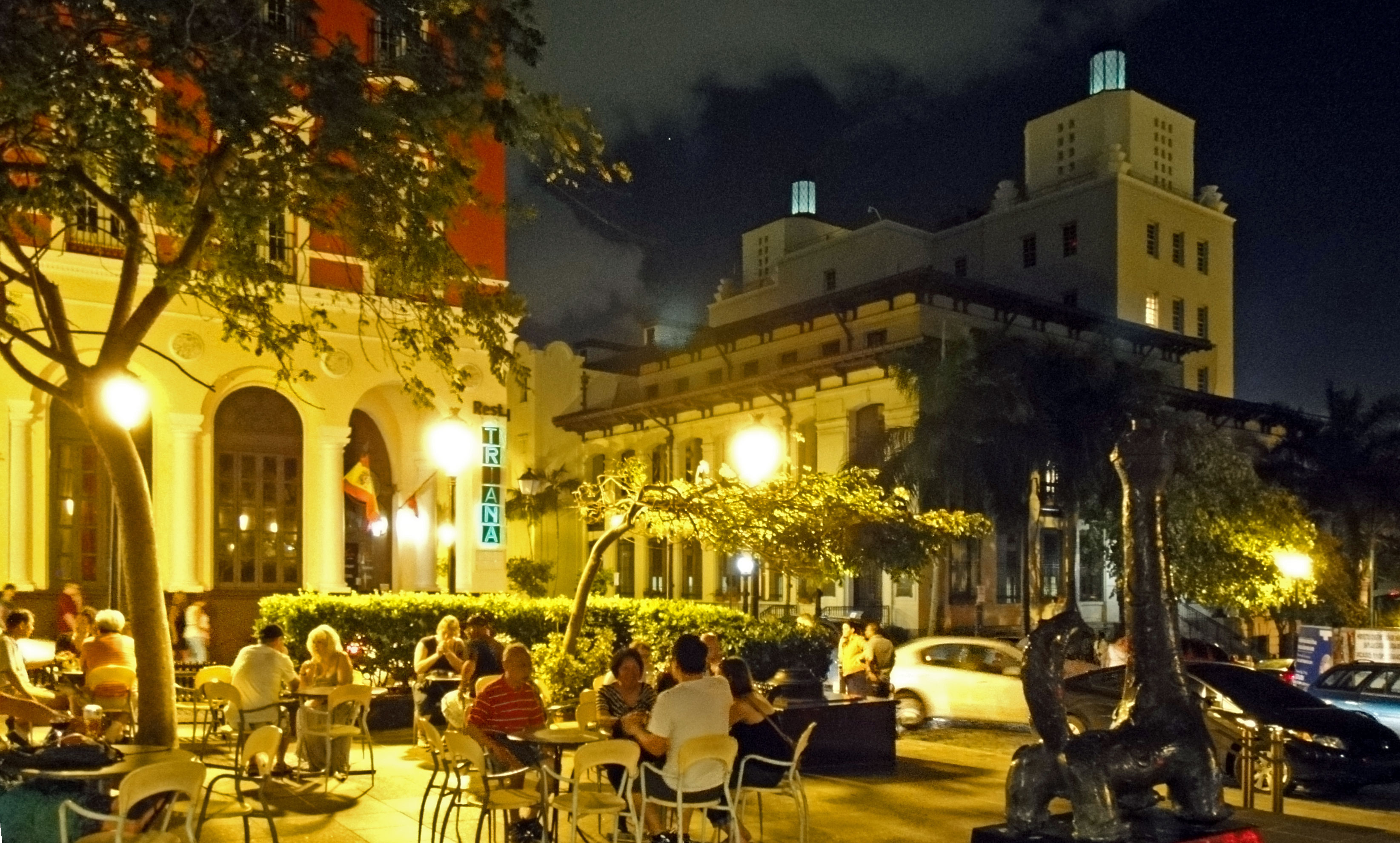 Carli's Fine Bistro & Piano @ Plazoleta Rafael Carrión in front of Banco Popular building in Old San Juan